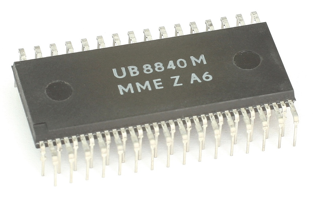 Single-chip microcontroller UB8840M from VEB Mikroelektronik "Karl Marx" Erfurt (MME), Zilog Z8 architecture, manufactured 1990